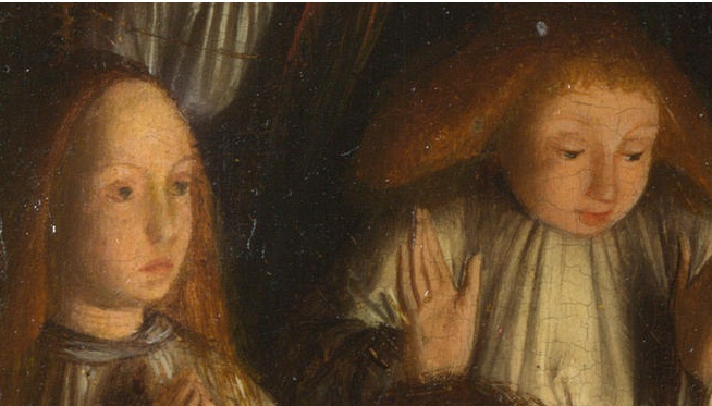 Detail, Nativity. National Gallery, London.